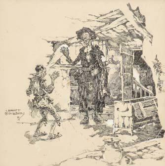 Illustration for Lazarillo de Tormes